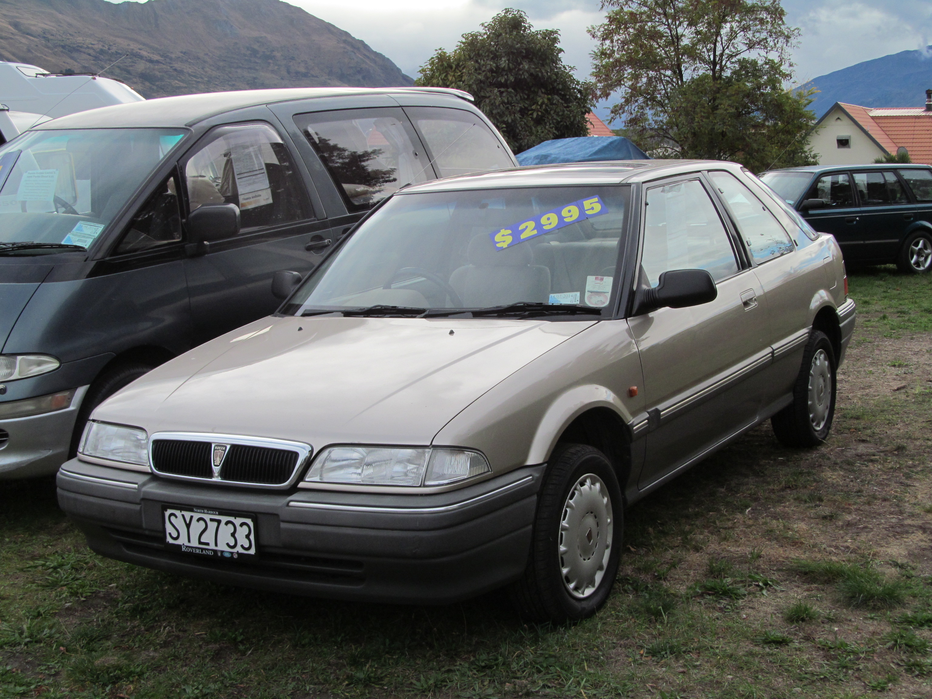 Aside from the fact it's a rare 3-door 200 in lovely condition, who can spot the other reason for taking this photo??